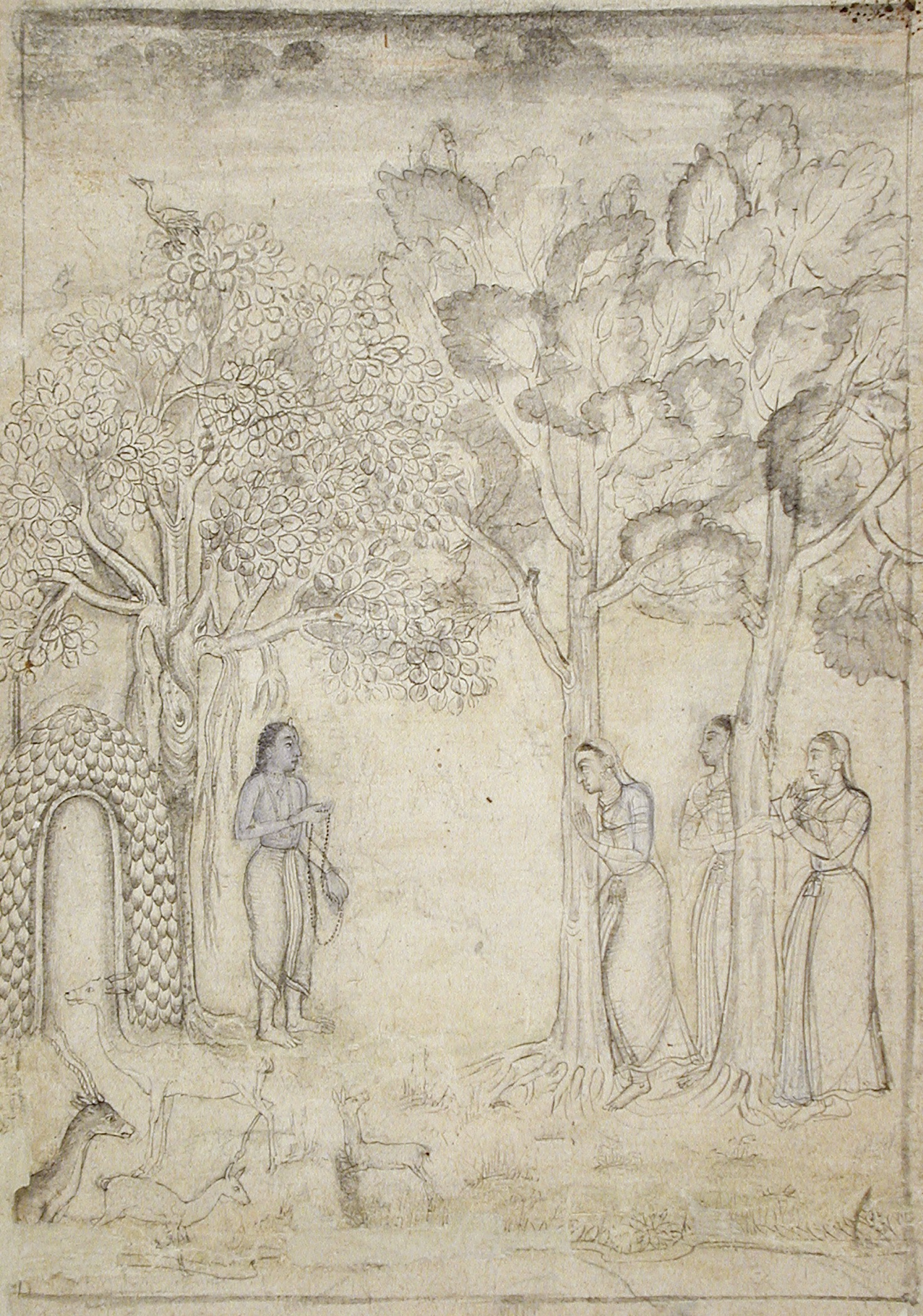 Northern India, 1650-1675 Drawings Ink and opaque watercolor on paper Gift of Paul F. Walter (M.76.149.1) South and Southeast Asian Art